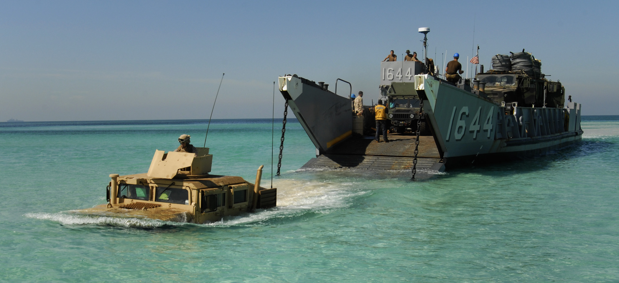 ARABIAN GULF (Nov. 14, 2011) A Humvee launches from a landing craft utility (LCU) assigned to the amphibious dock landing ship USS Whidbey Island (LSD 41). Whidbey Island is deployed as part of the Bataan Amphibious Ready Group, supporting maritime security operations and theater security cooperation efforts in the U.S. 5th Fleet area of responsibility. (U.S. Navy photo by Mass Communication Specialist 3rd Class James Turner/Released)